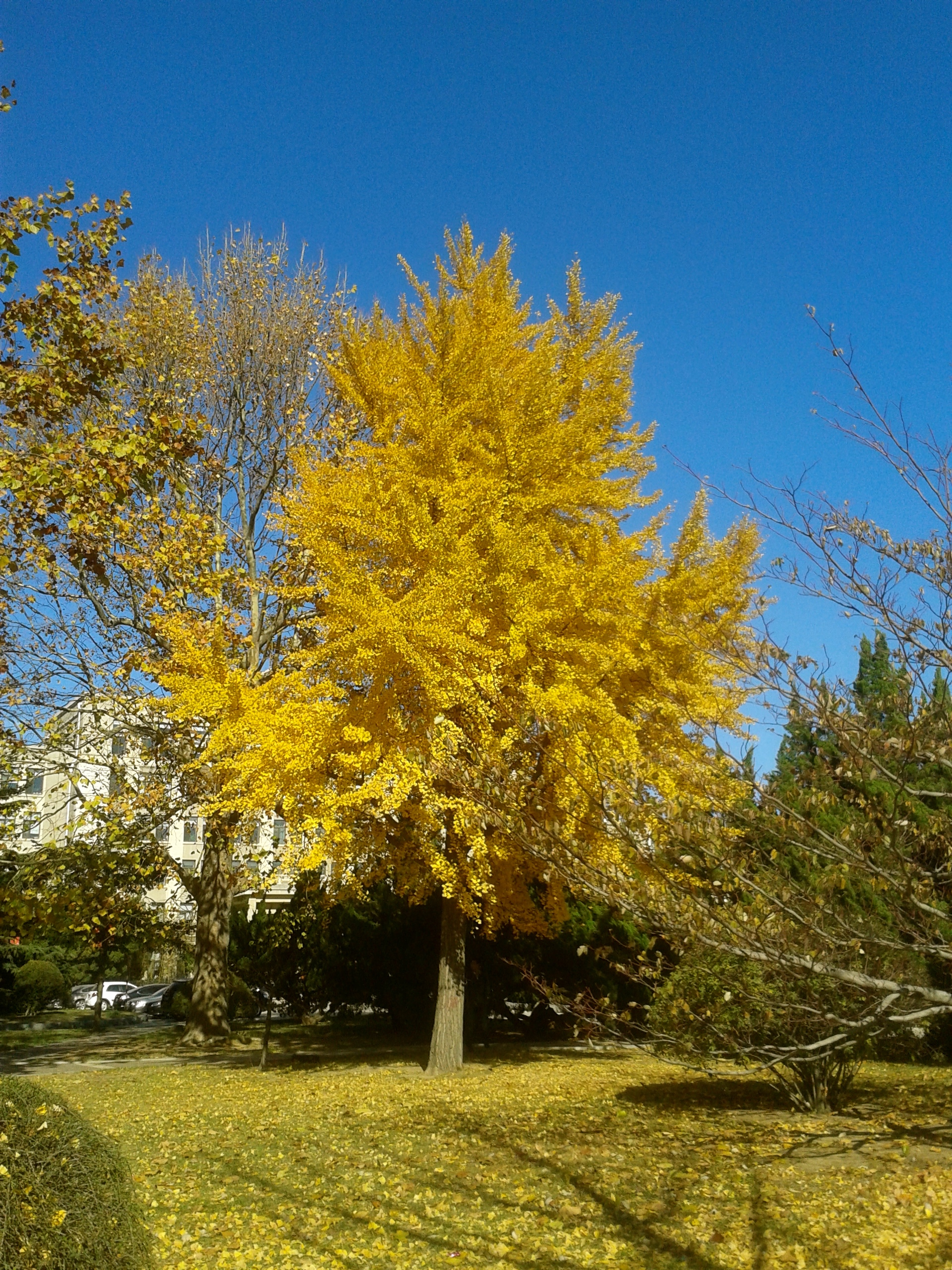 Autumn foliage in Dalian University of Technology. Dalian, Liaoning Province, China